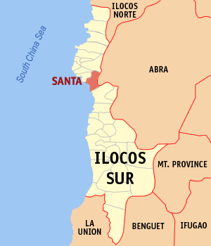 Map of Ilocos Sur showing the location of Santa